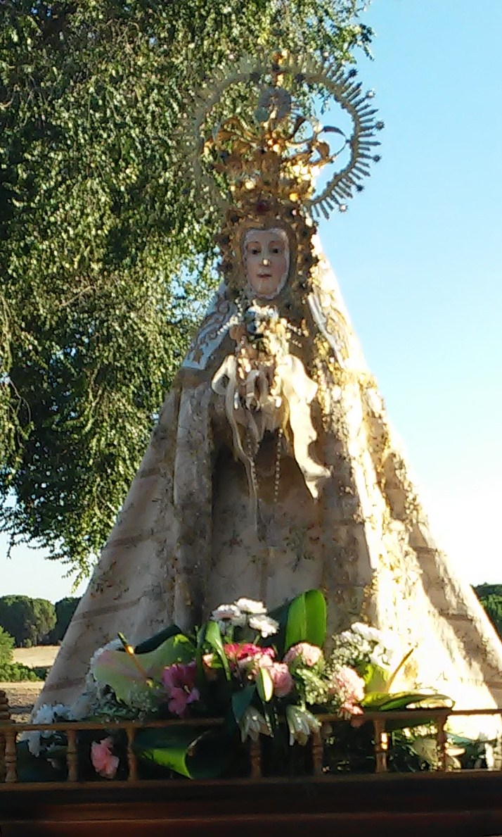 Sieteiglesias Virgin hermitage of Matapozuelos.